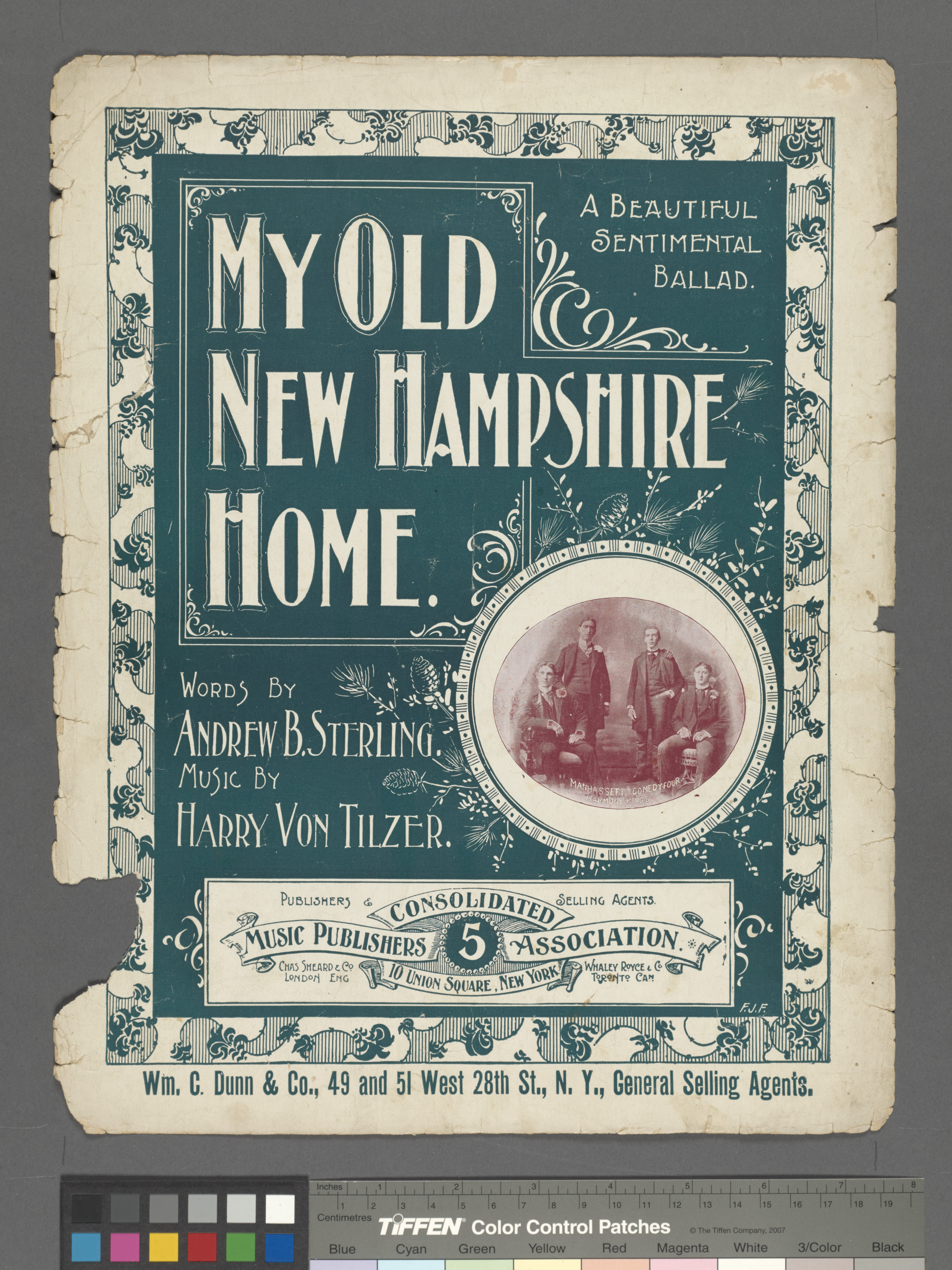 On cover: Manhassett comedy four harmony kings. [Group portrait] Statement of responsibility : words by Andrew B. Sterling ; music by Harry Von Tilzer.